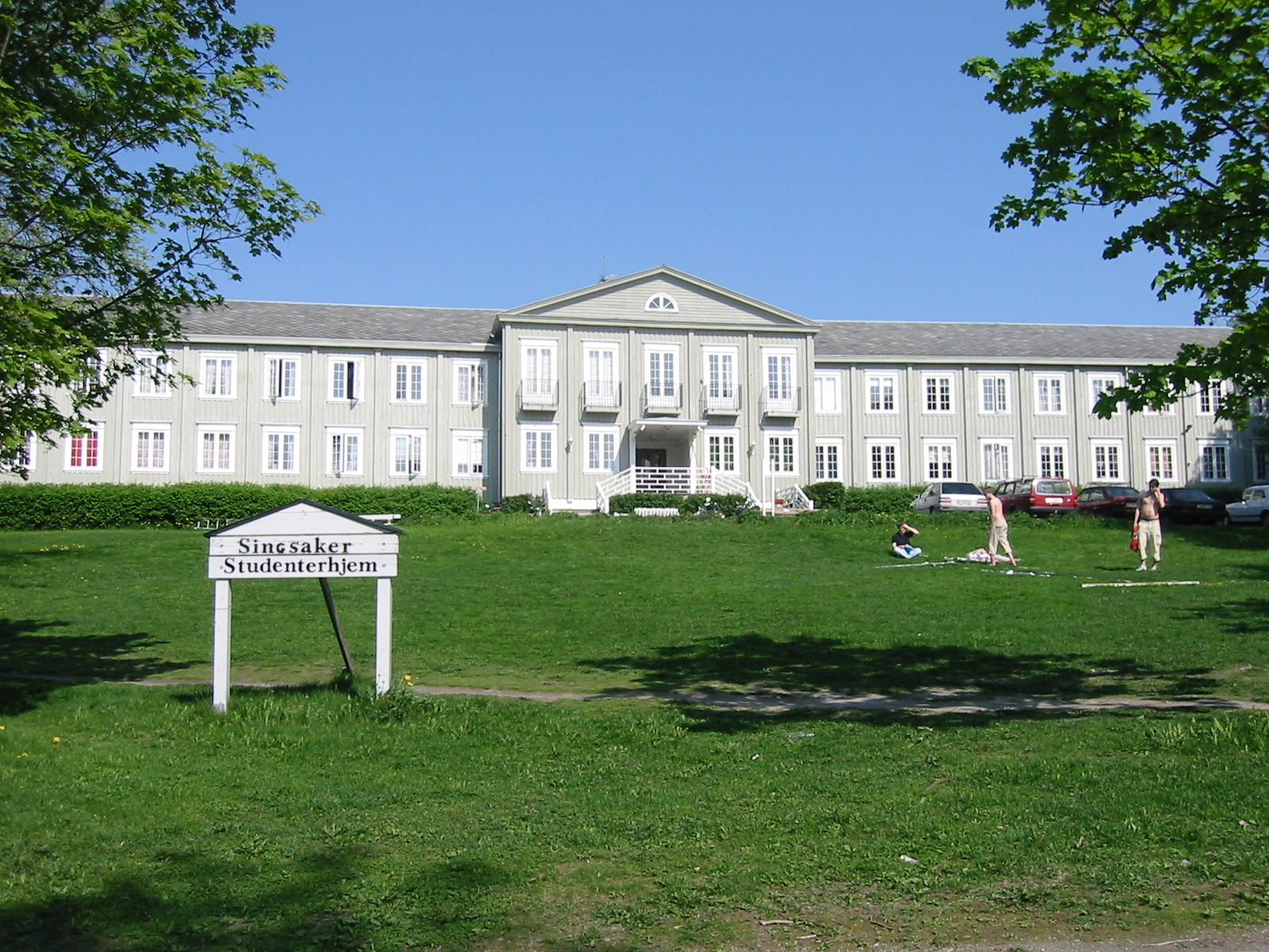 Photography taken my wikipedia member Chiene. Feel free to use this photography as you wish.